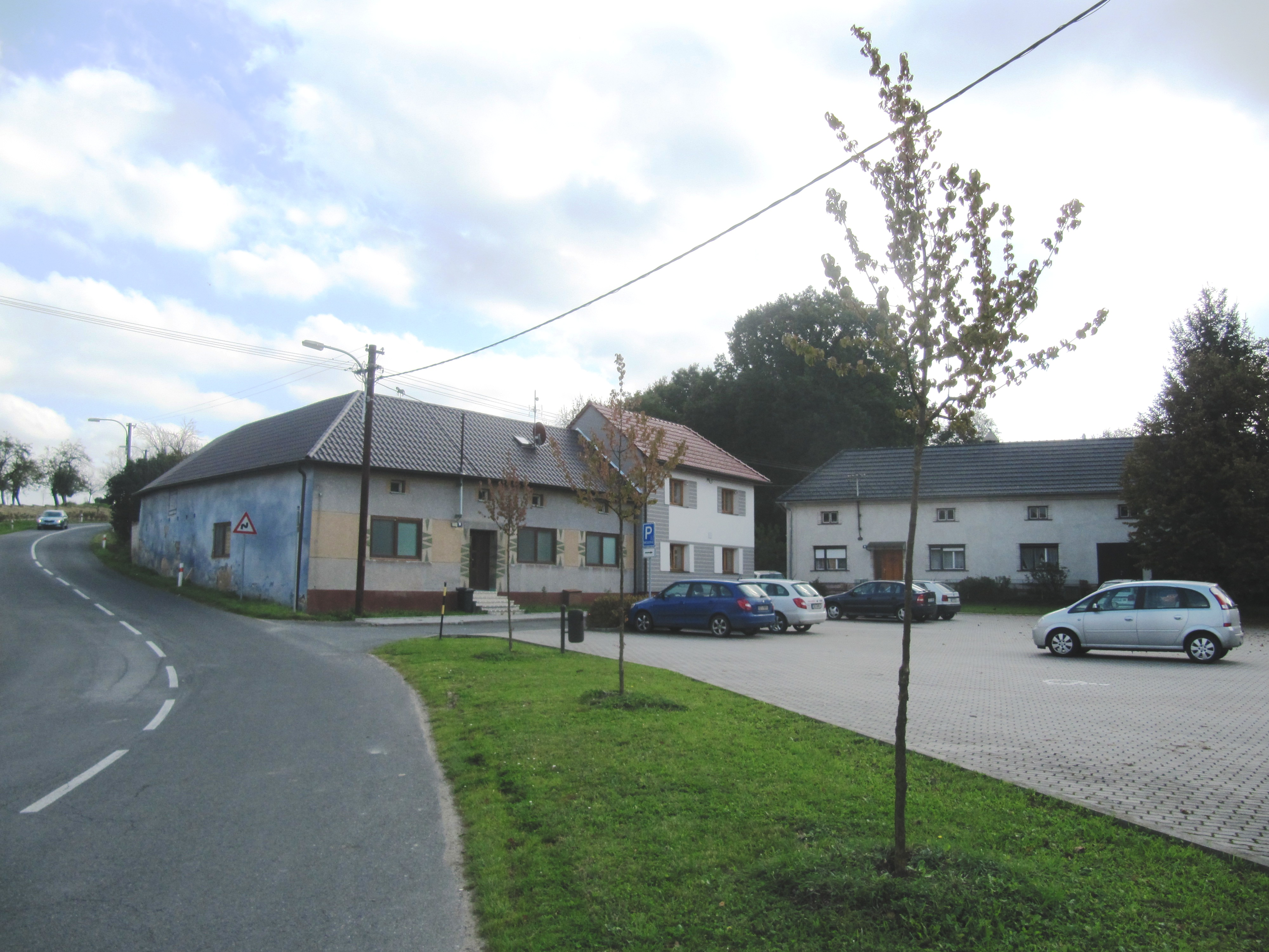 Částkov, Uherské Hradiště District, Czech Republic.